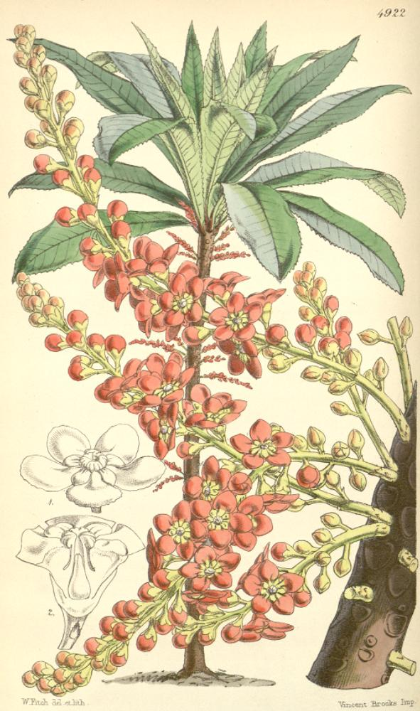 Illustration of Clavija ornata